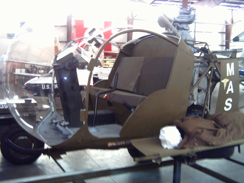 Bell H-13G Sioux, MASH colour scheme, Pueblo Weisbrod Aircraft Museum, Pueblo Memorial Airport, Pueblo, CO, taken by Lance Barber, 2007, for Wikipedia public domain. Category:Images of helicopters Bell H-13G Sioux, MASH colour scheme, Pueblo Weisbrod Aircraft Museum, Pueblo Memorial Airport, Pueblo, CO, taken by Lance Barber, 2007, for Wikipedia public domain.